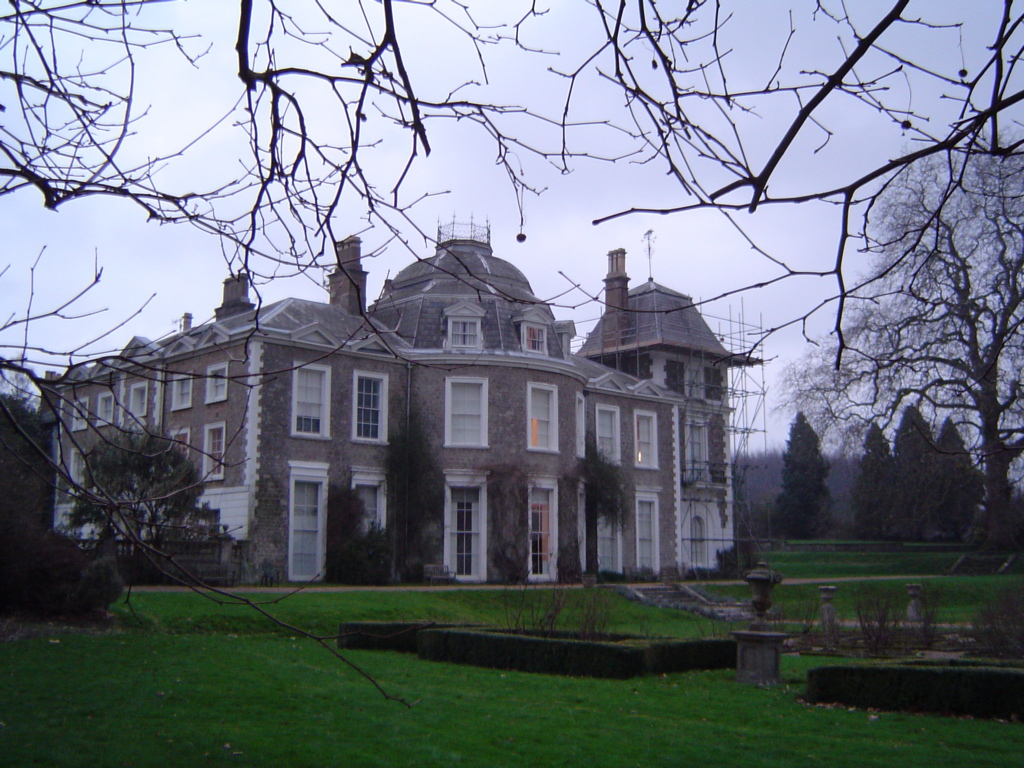 Oxon Hoath, near Hadlow, Kent, UK. The building is within the parish of West Peckham.